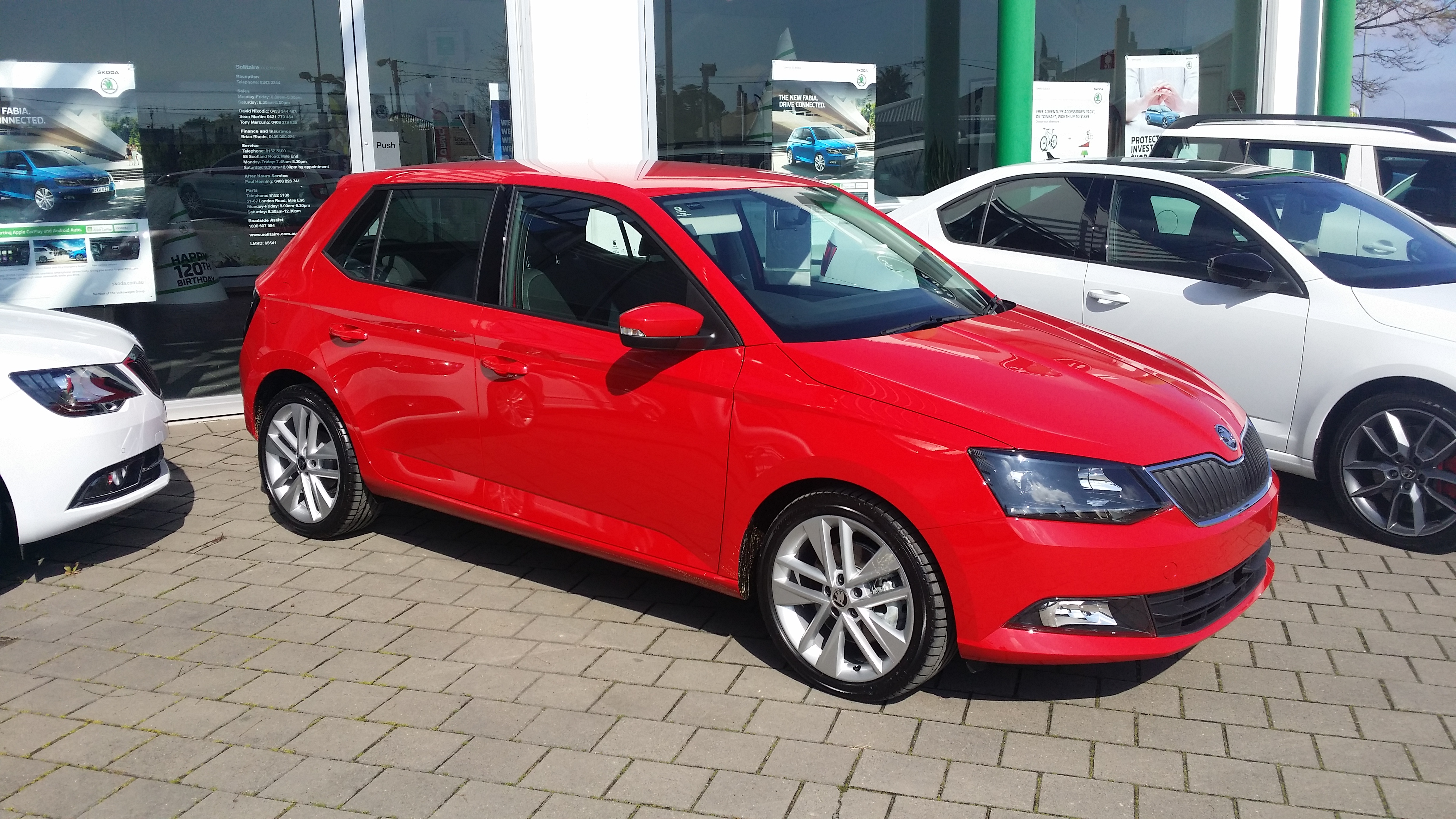 Finally, the new generation Fabia has hit the Australian market. Great looking car, but the wagon is even better looking!